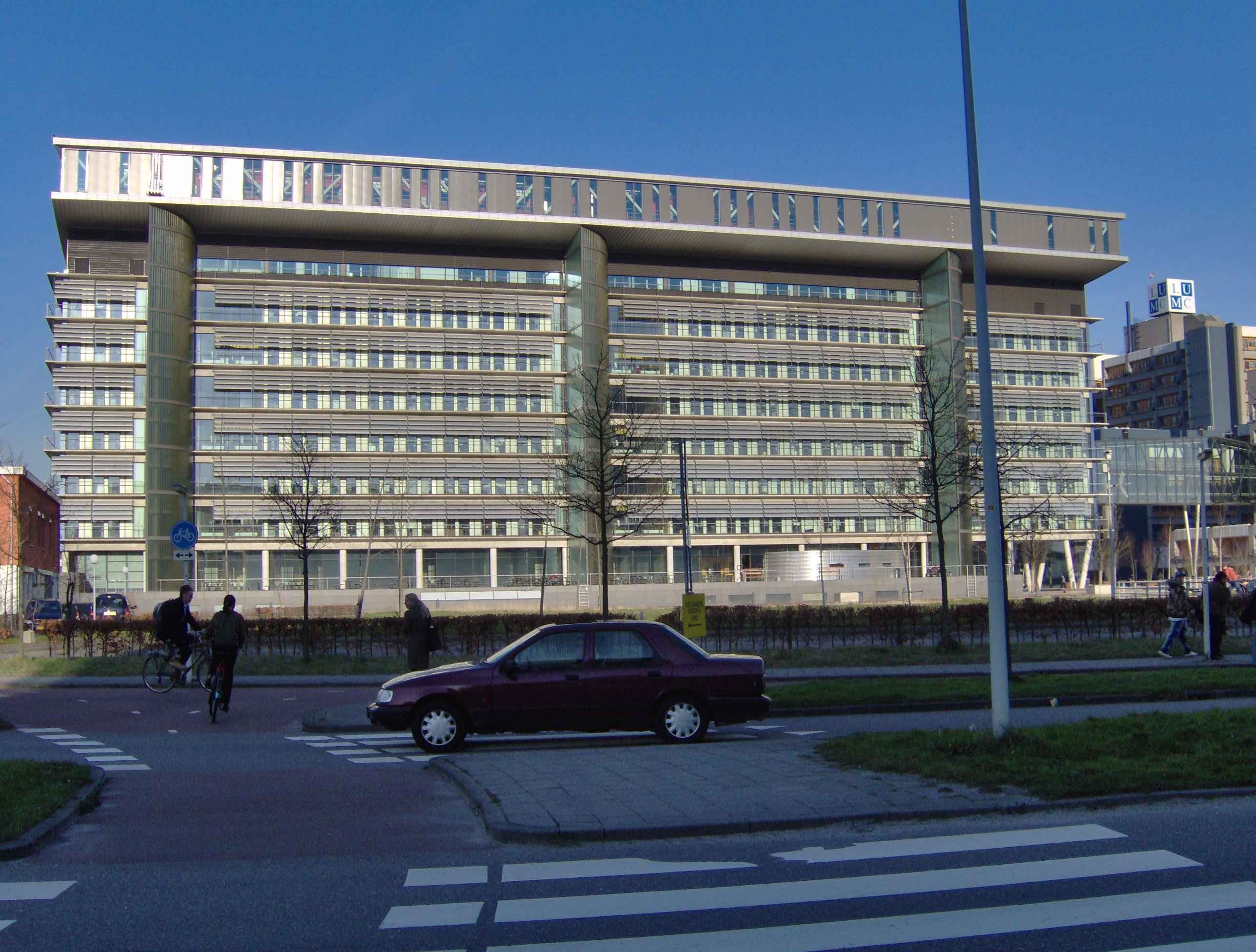 The research building of the Leiden University Medical Center in Leiden, the Netherlands